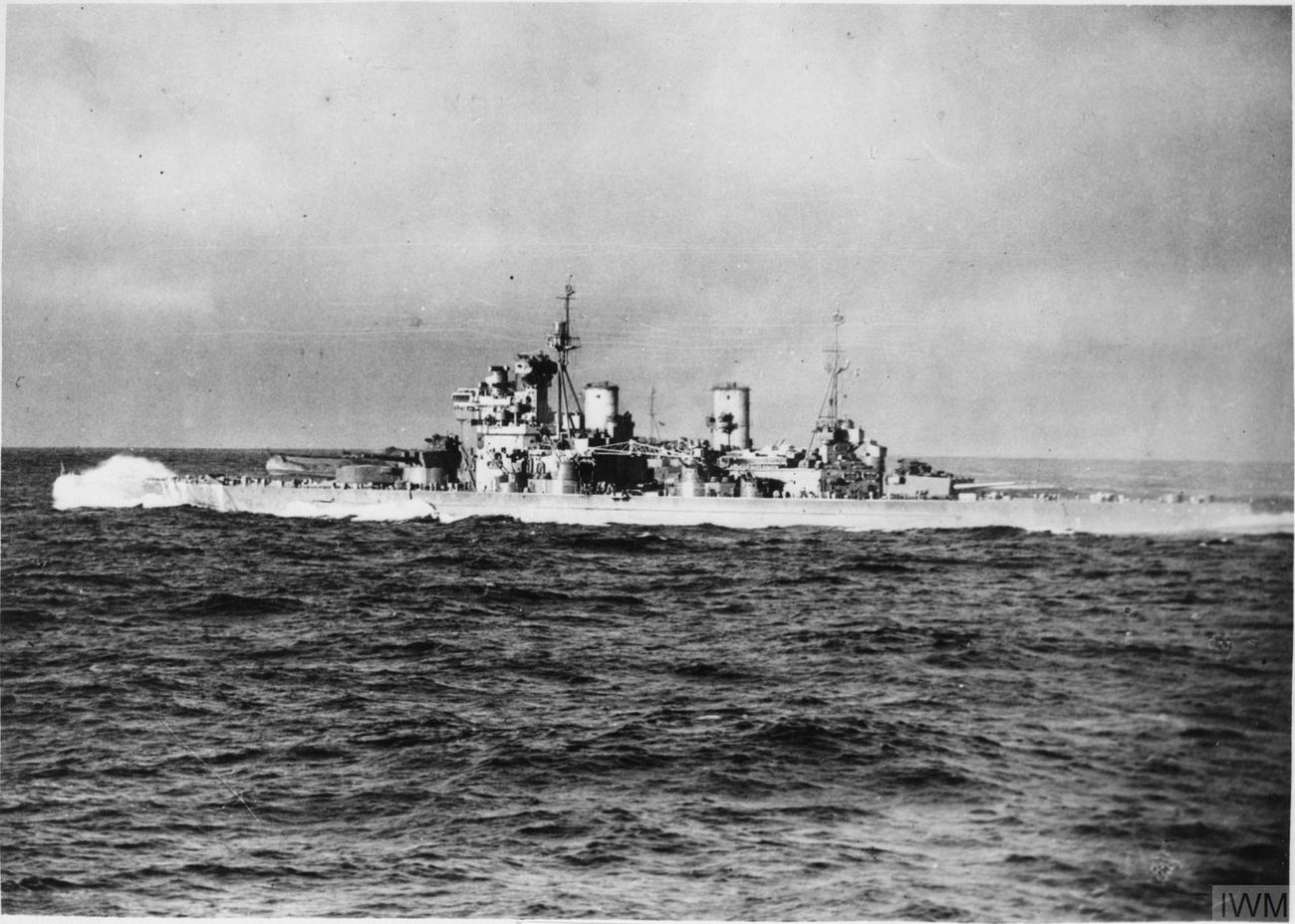 Waves crashing over the bow, HMS Duke of York steaming at 20 to 25 knots during an Arctic convoy to Russia (photographed from the aircraft carrier HMS Victorious).